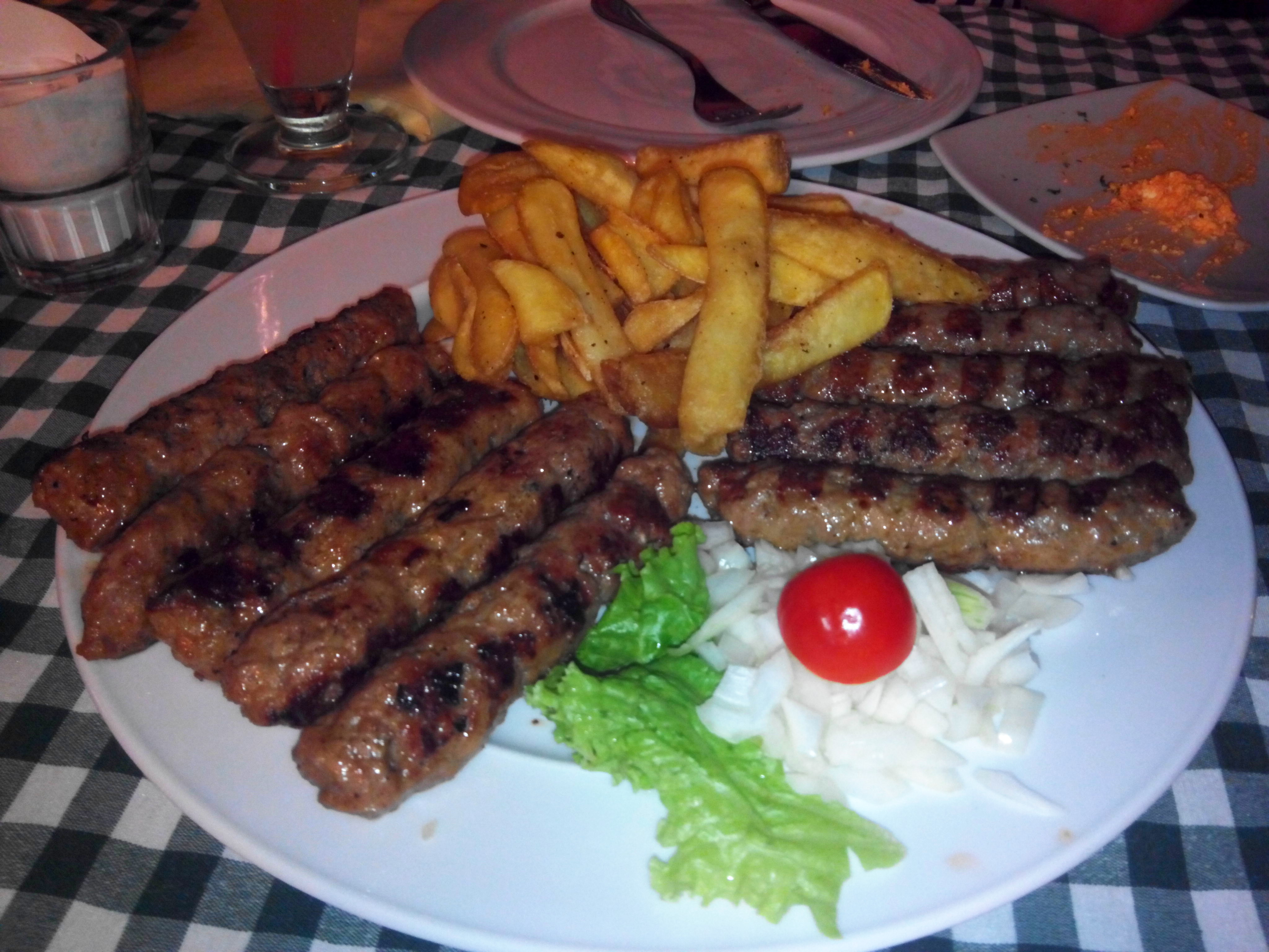 Ćevapi with French fries (Budva, Montenegro, July 2015)